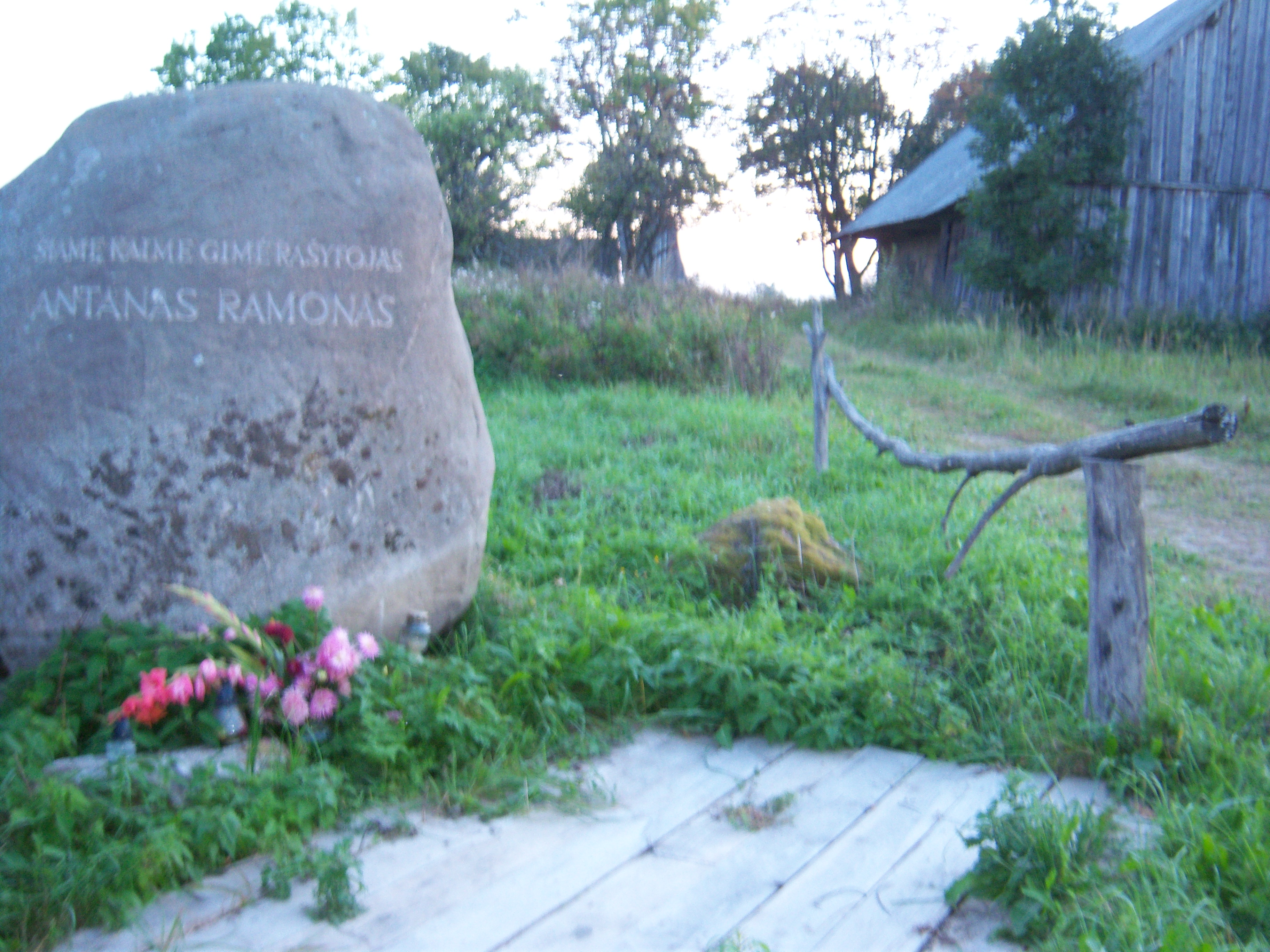 Kurmiai village, commemoration stone, Klaipėda District. Lithuania